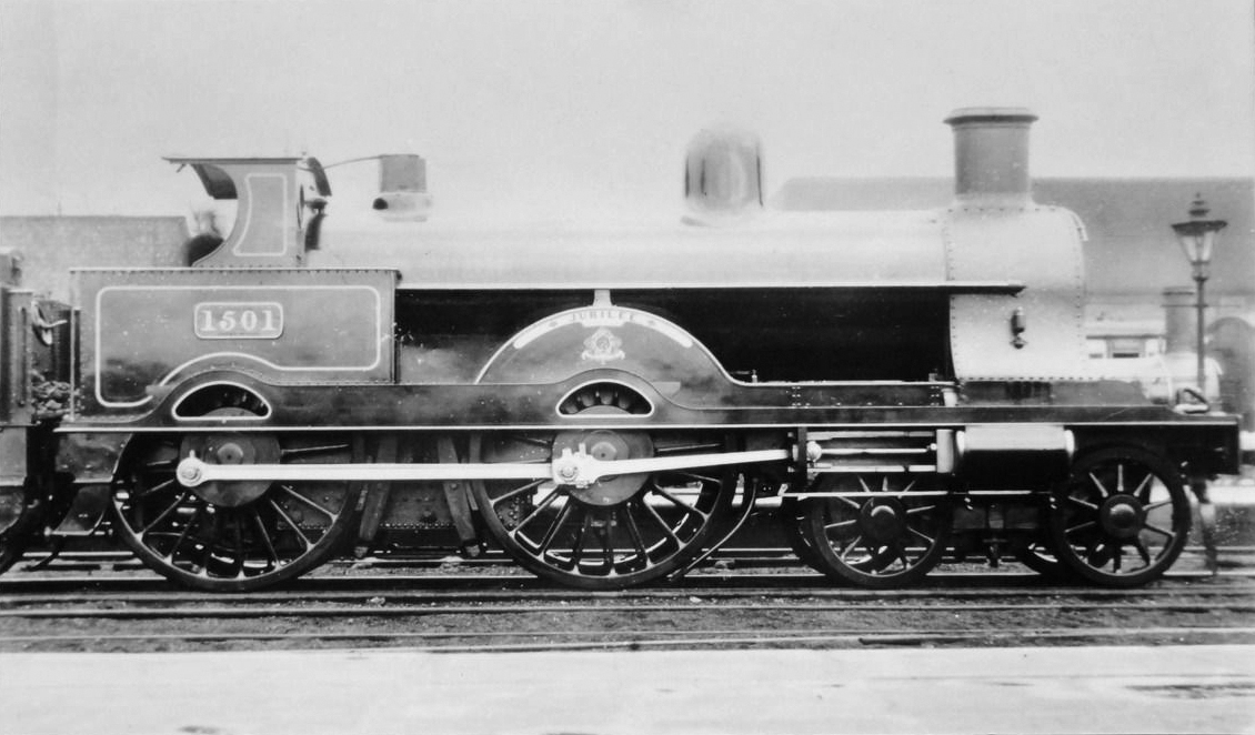 Photograph of LNWR engine No.1501, Jubilee.jpg